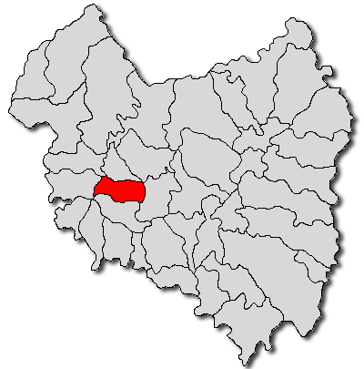 Categorie:Hărţi ale judeţului Covasna